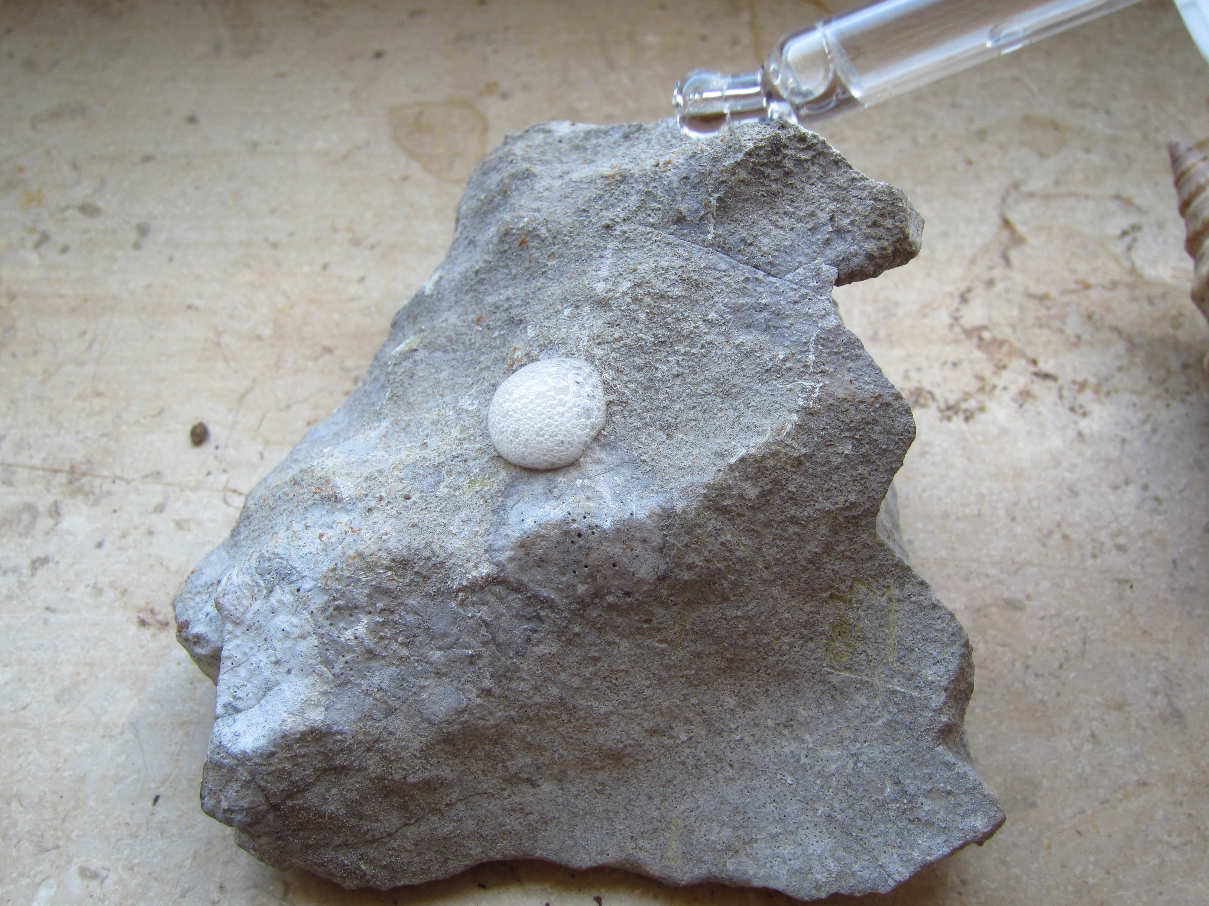 Identification of carboniferous limestone with hydrochloric acid